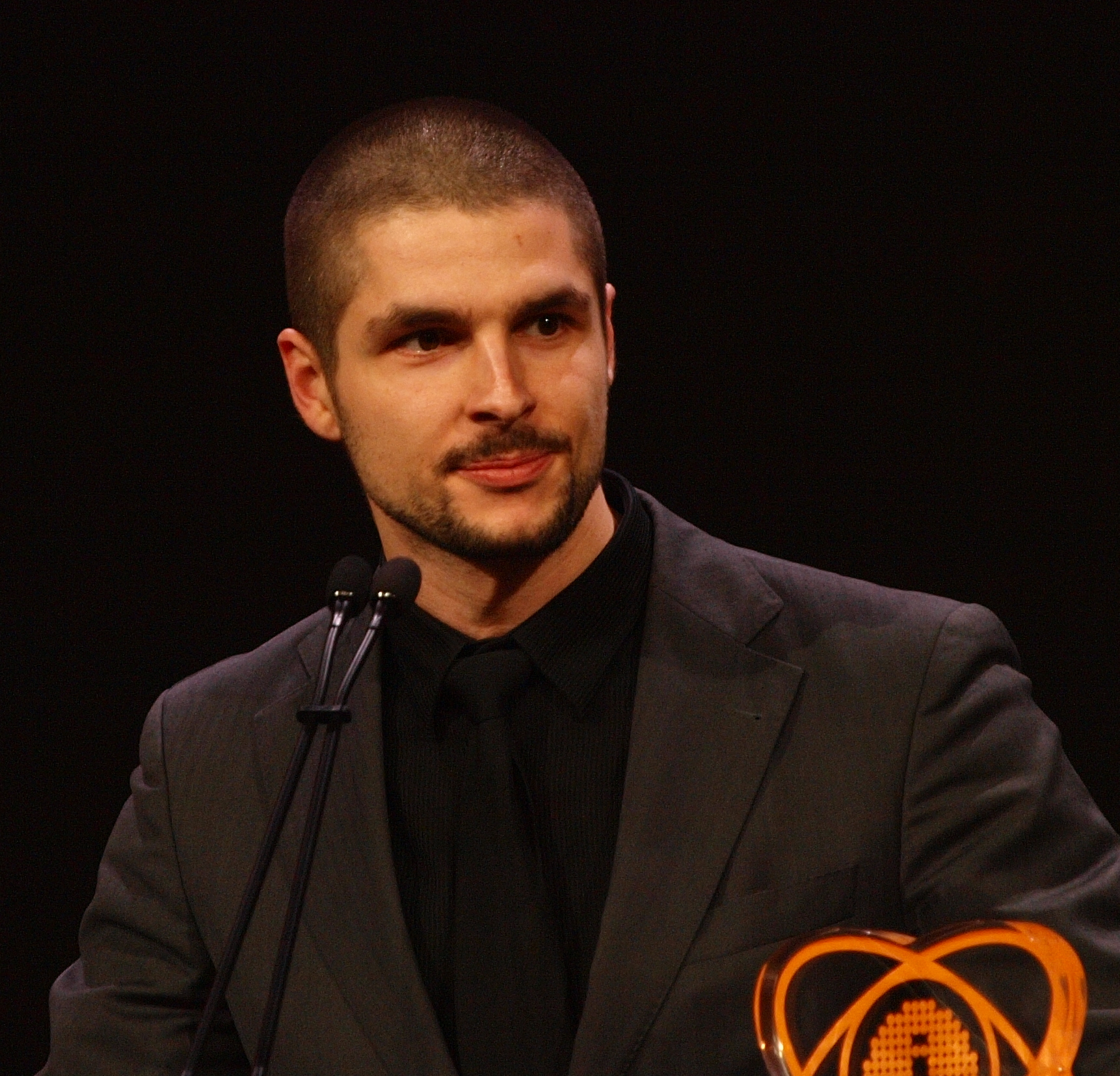 Dino Patti of PlayDead studios at the 12th annual Independent Games Festival Awards